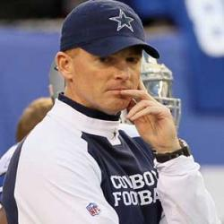 Jason Garrett, American football player, now head coach for the Dallas Cowboys